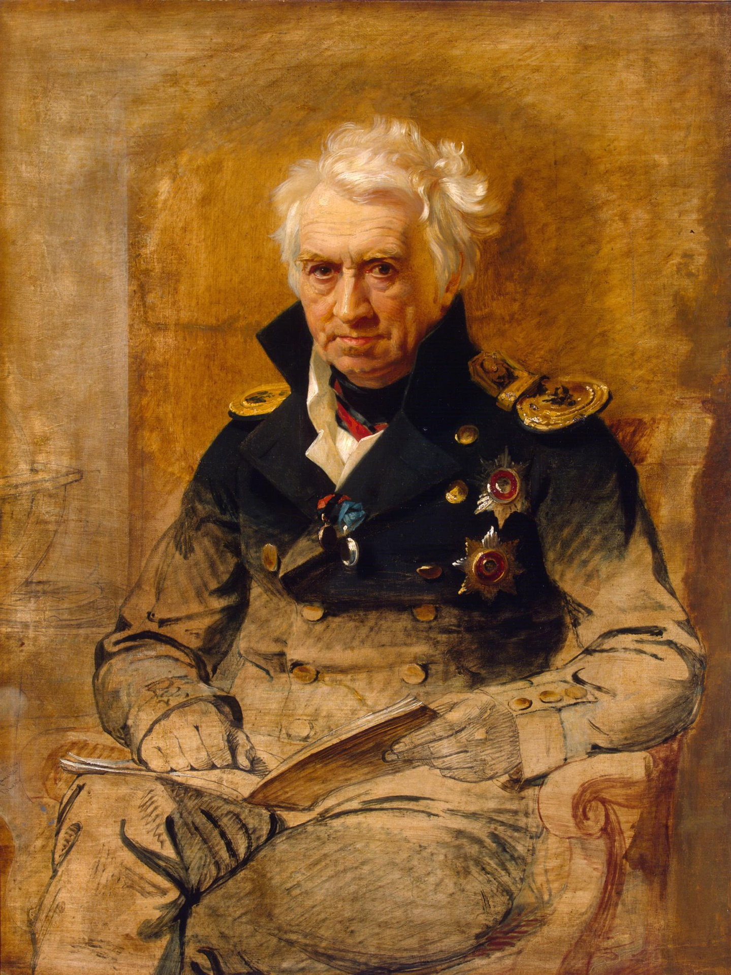 Alexander_Semyonovich Shiskov (1754- 1841) russian admiral and writer